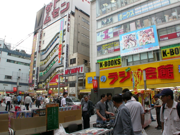 the electronics district of Akihabara, 2003